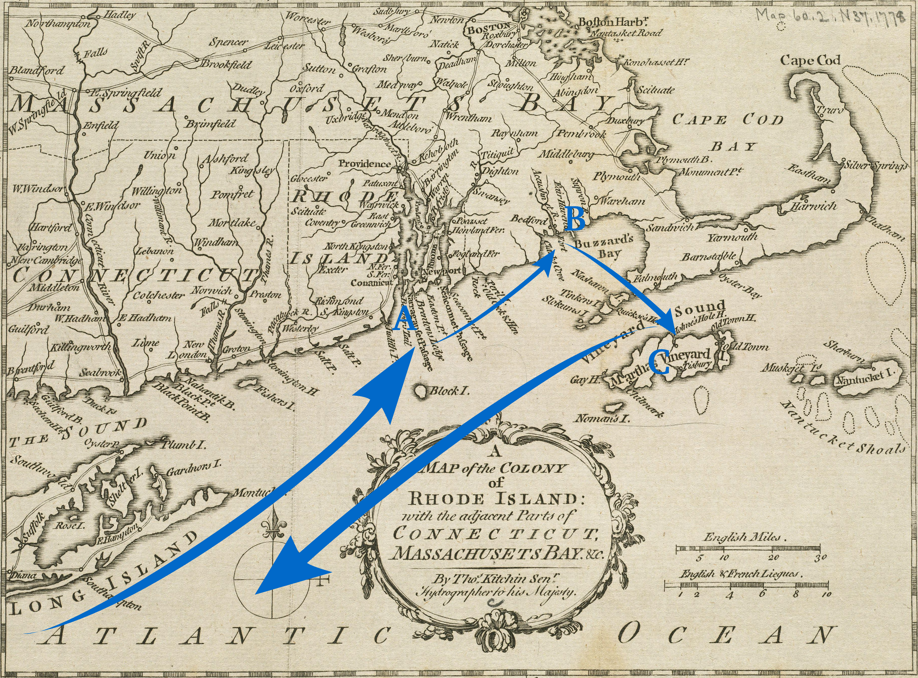 A 1778 map annotated with the route of a raiding expedition against Massachusetts coastal communities in September 1778. The expedition was under the command of British General Charles Grey. Points of note: A: Newport, Rhode Island B: New Bedford and Fairhaven, Massachusetts C: Martha's Vineyard